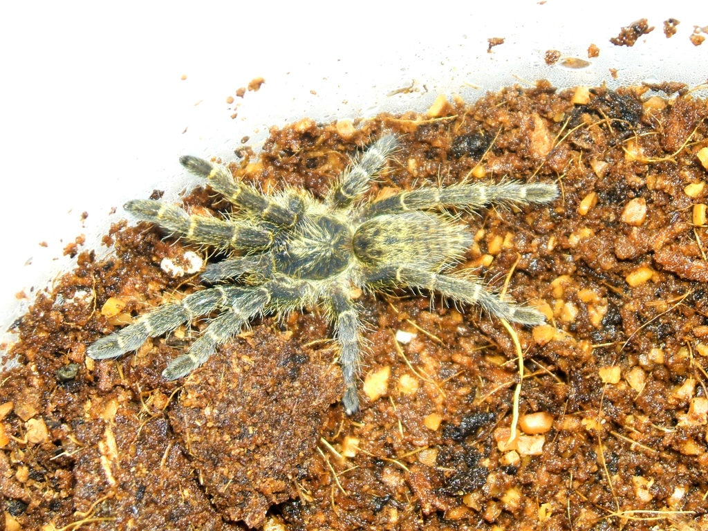 picture of a spiderling Pterinochilus chordatus